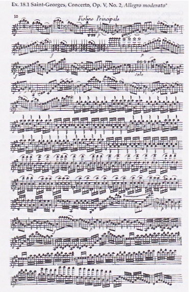 Demonstrating technical passages in the violin part of a Saint-Georges concerto